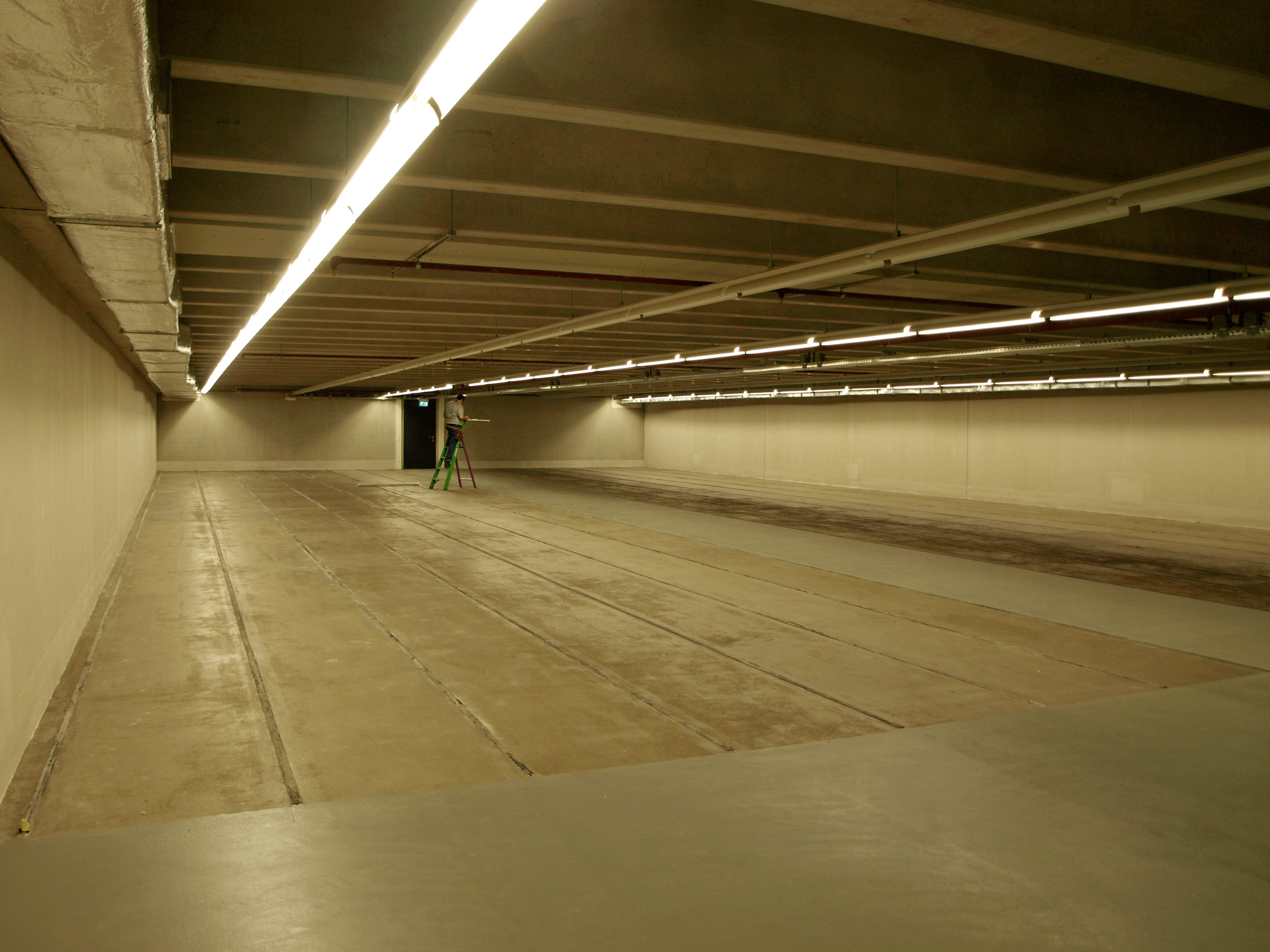 Eemhuis Amersfoort - storage of Archive Eemland; before the placing of the filing cabinets